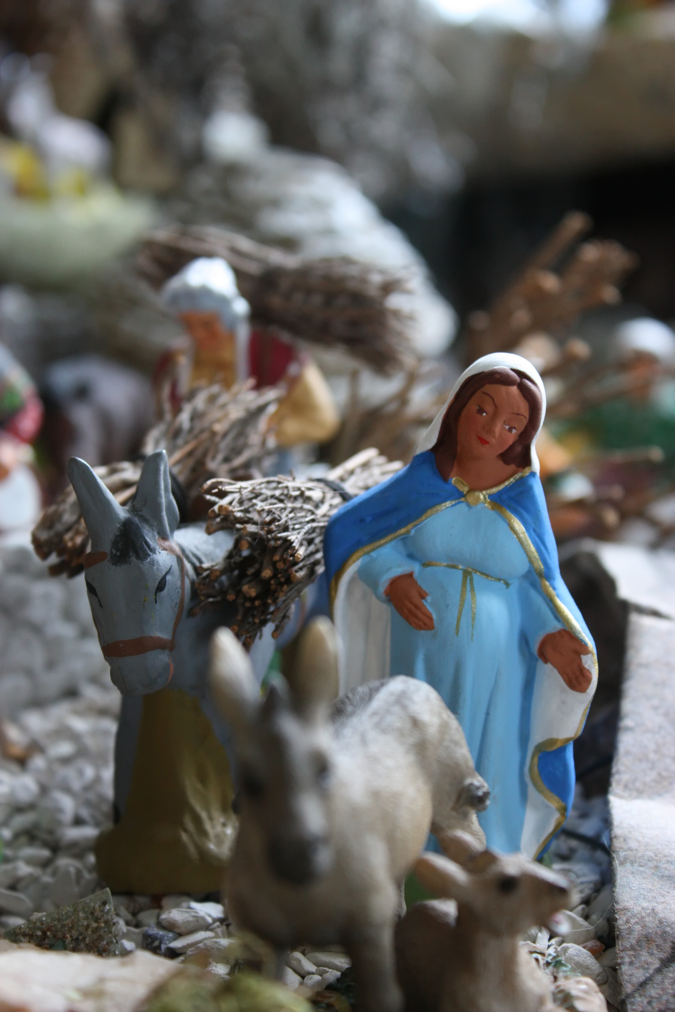 Detail of a Provençal crèche: Mary pregnant and walking.